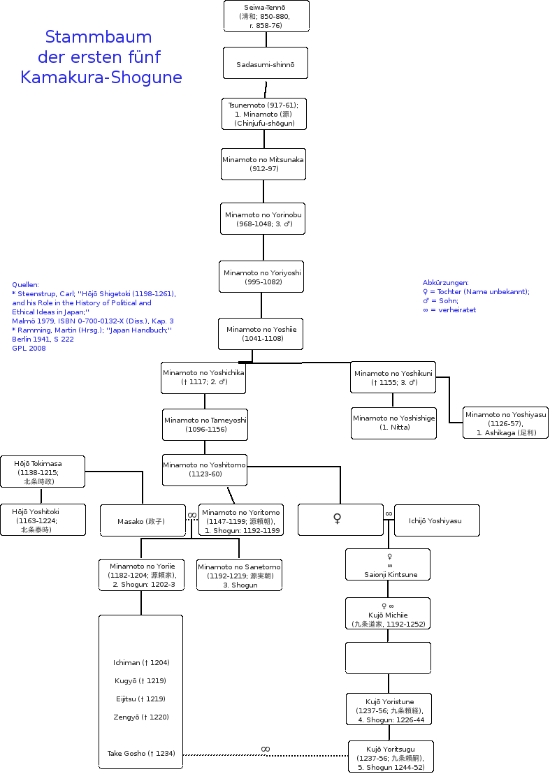 .png Version of a genealogical diagram showing the descent of the first five Shoguns of the Kamakura Bakufu (German)